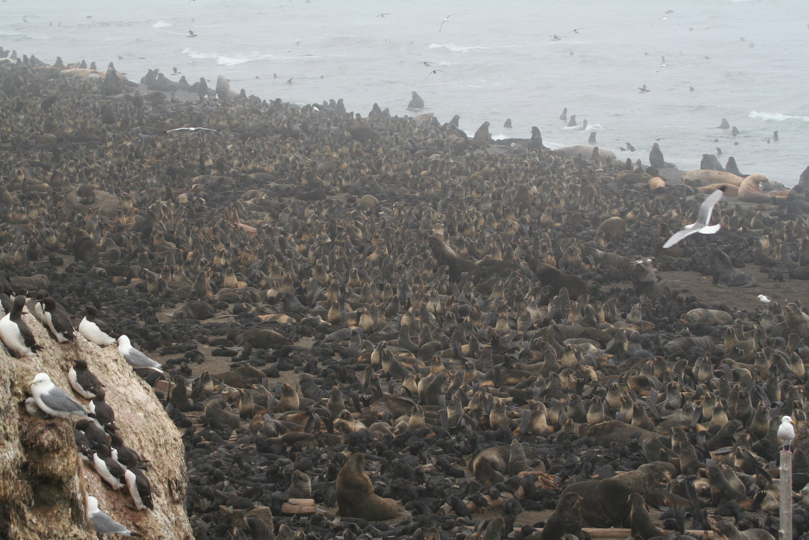 Northern fur seal (Callorhinus ursinus) colony on Tyuleny Island